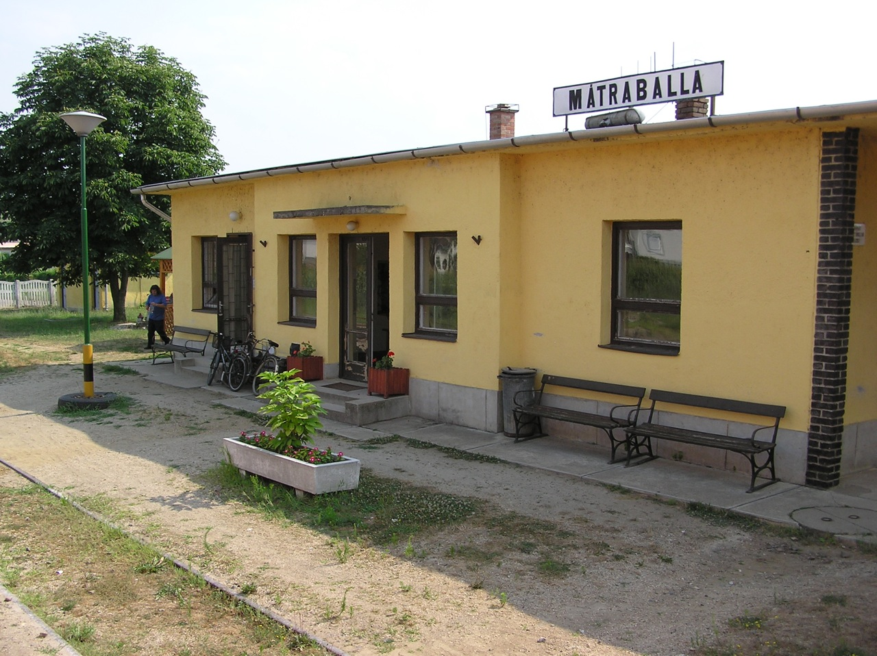 Railway station in Mátraballa; Hungary